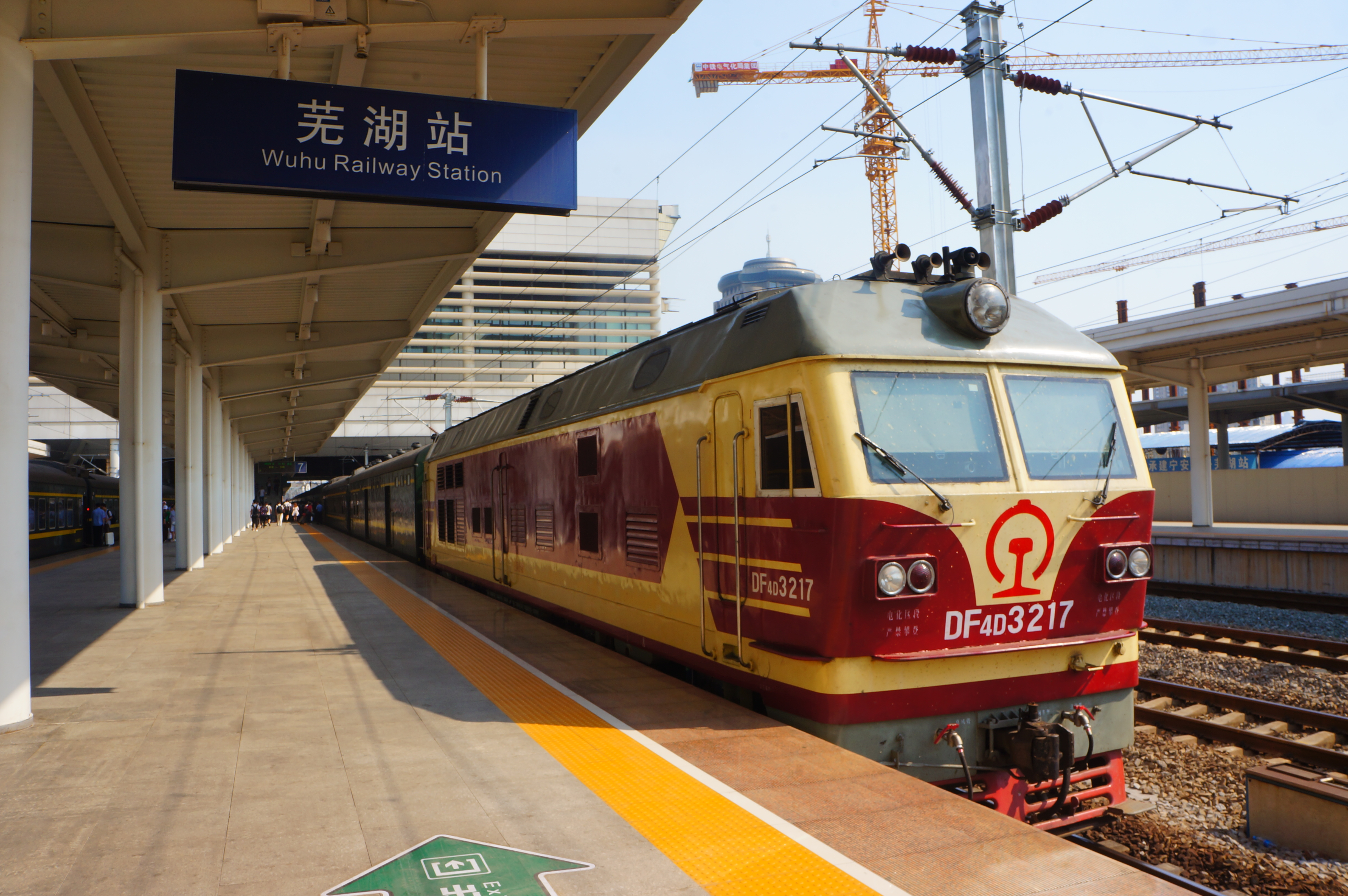 201705 DF4D-3217 hauls K8554 (Wuhu to Fuyang) at Wuhu Station